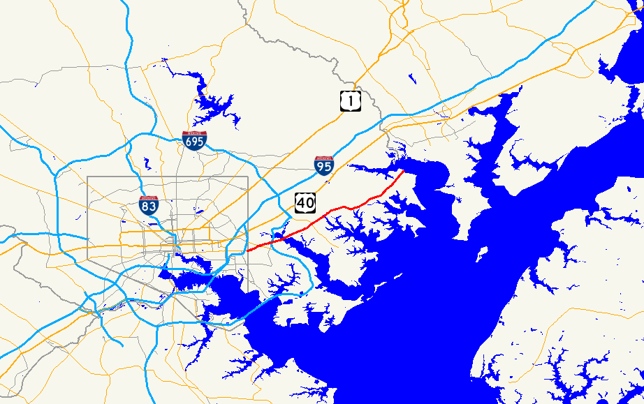 Map of Maryland Route 150